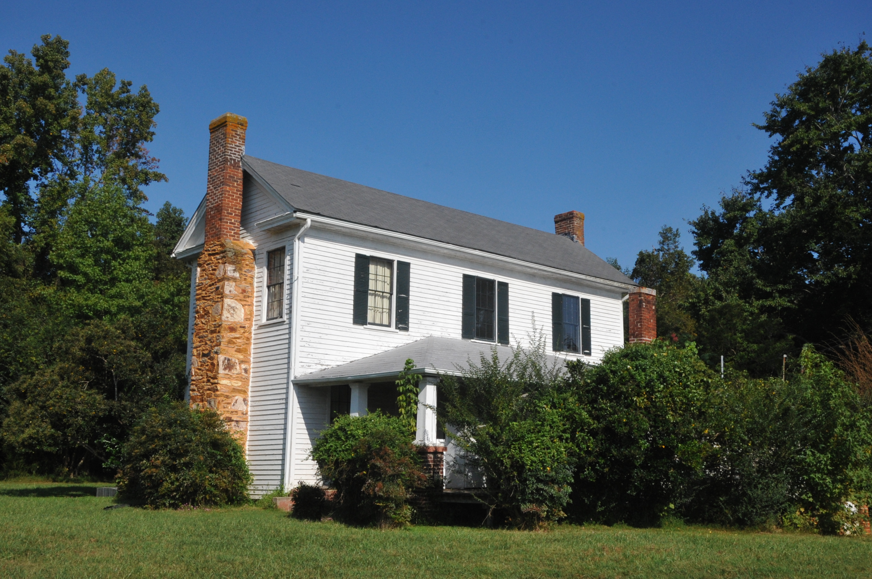 1873-1874; STILL AN ACTIVE FARM